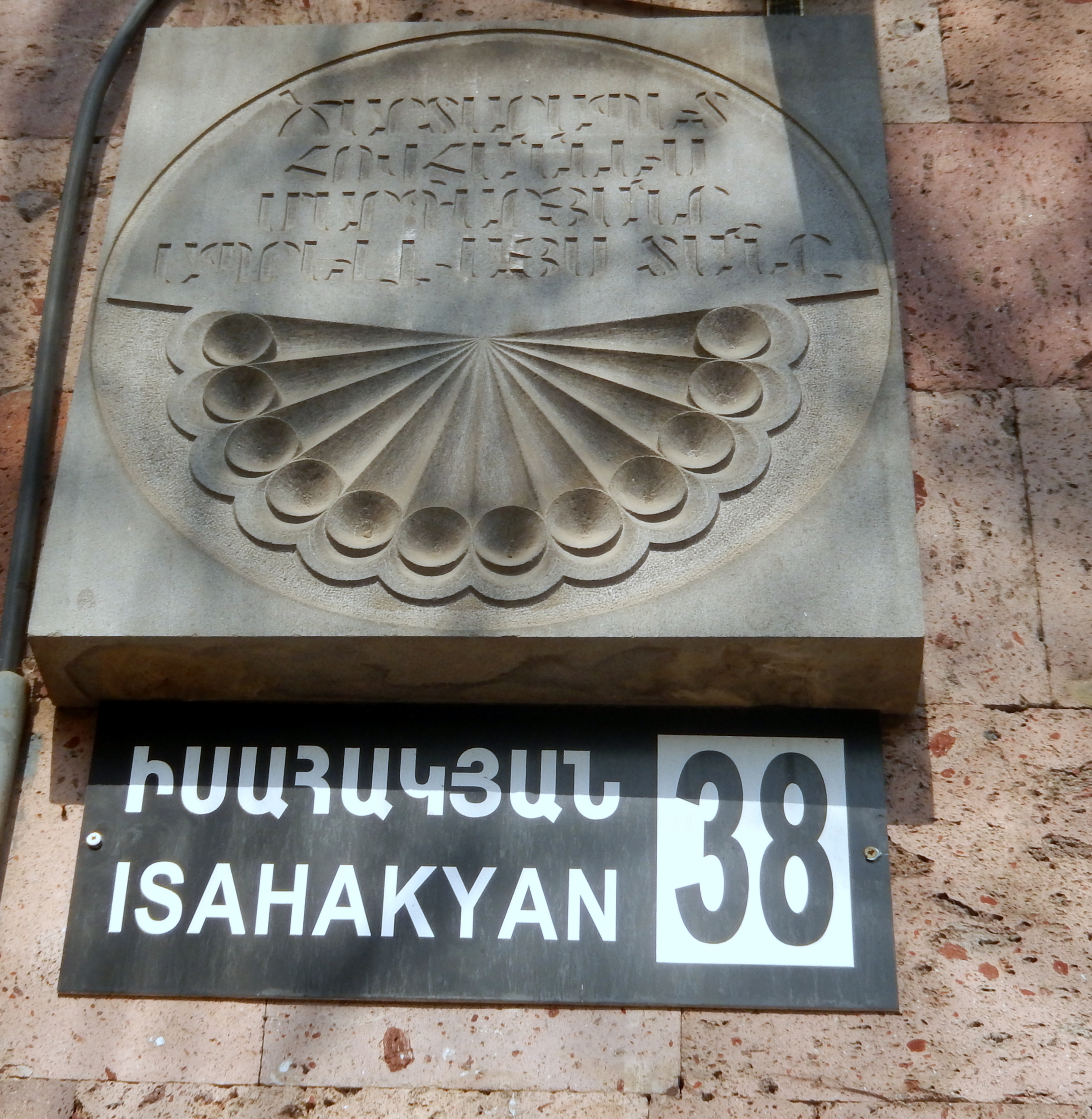 Hovhannes Margaryan's plaque in Yerevan